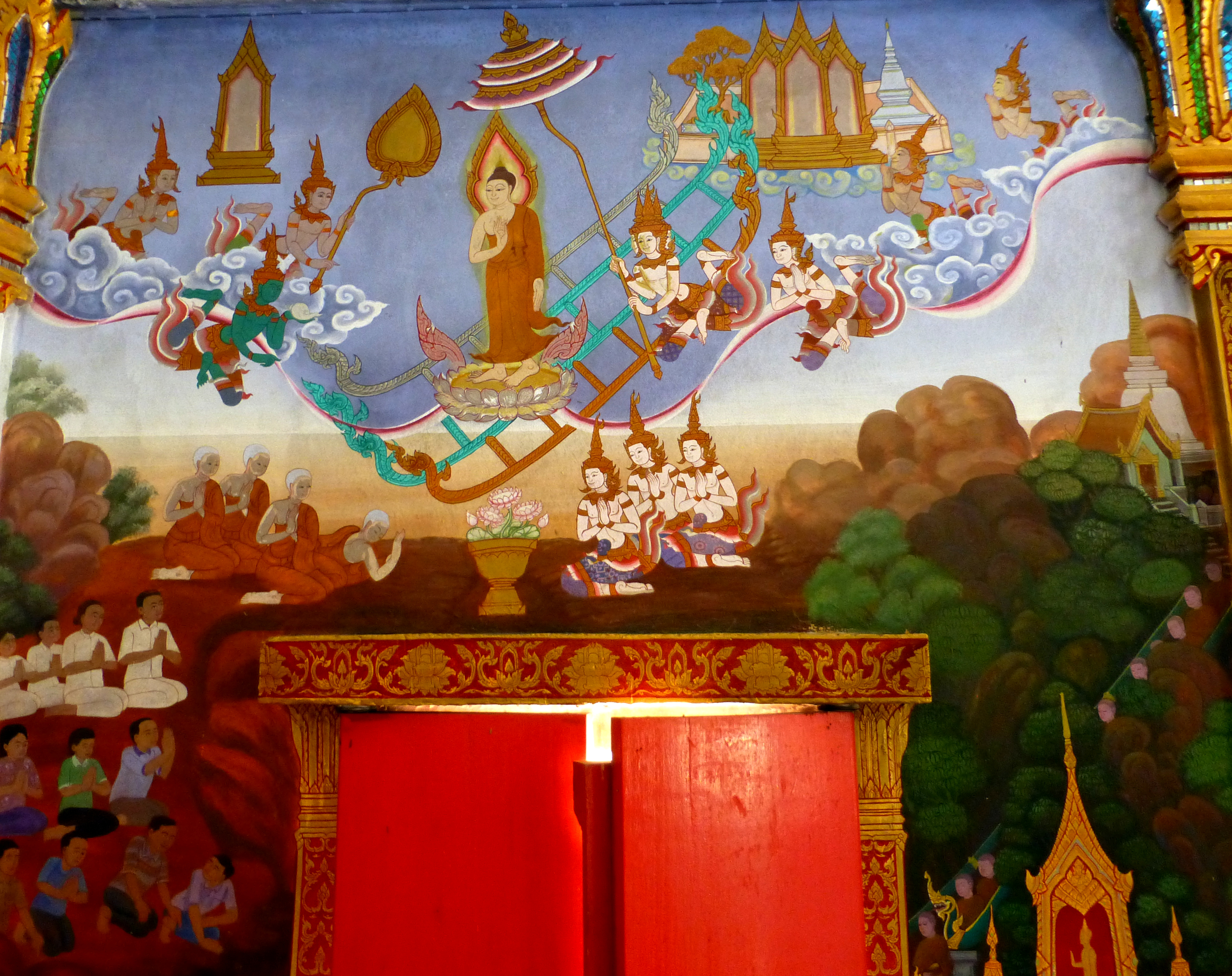 25 Descending from Tusita Heaven, Wat Pangla, Sadao Dt., Songkhla Province, Thailand Photograph from Wat Pangla in Songhkla, Southern Thailand taken by Anandajoti.